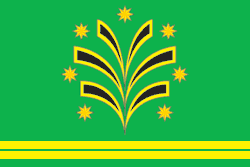 Flag of Chernomorsky, Krasnodar Territory, Russia